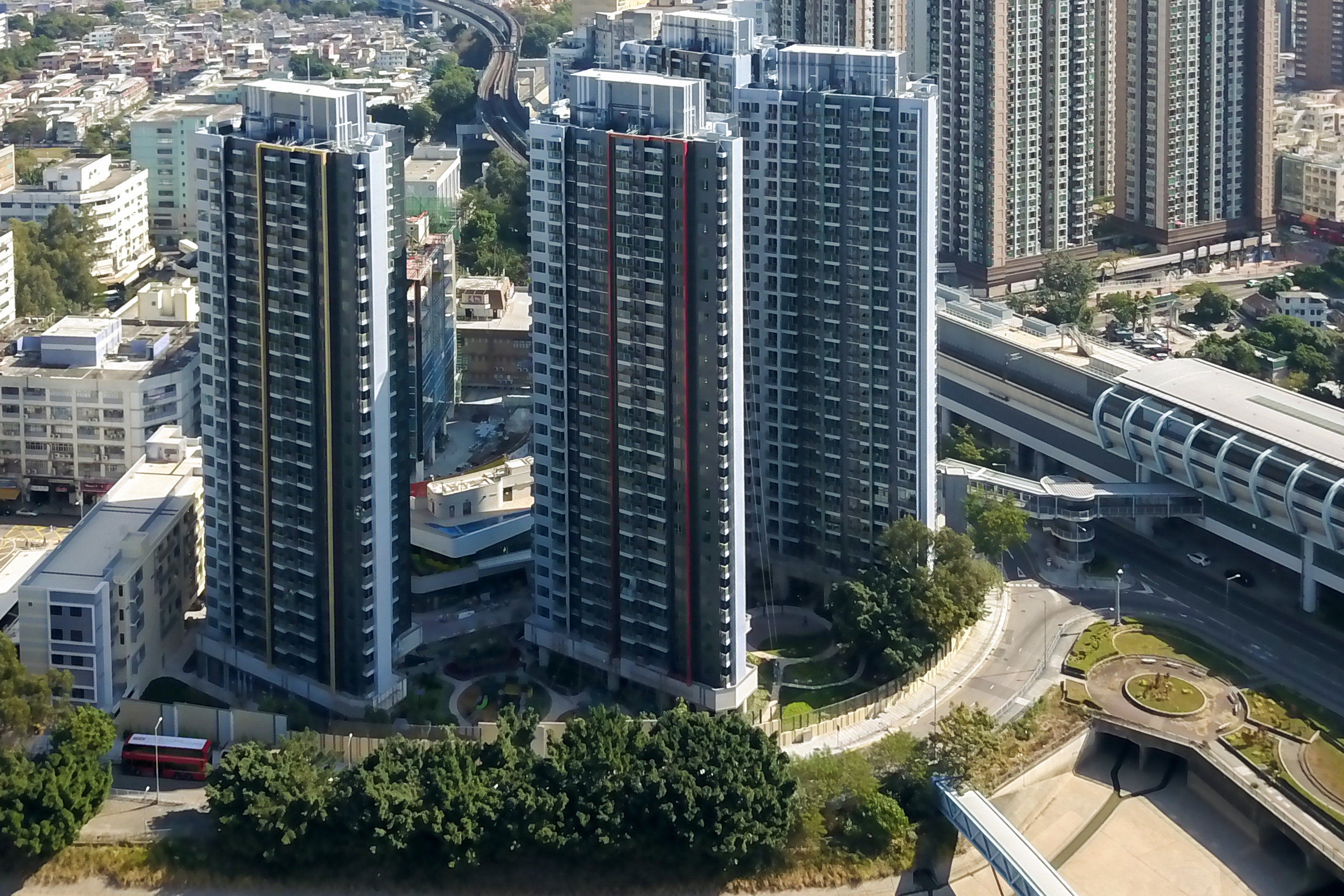 The Spectra